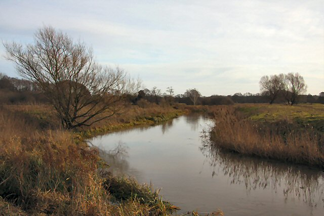 River Lark near Icklingham Looking upstream on this once-navigable river.